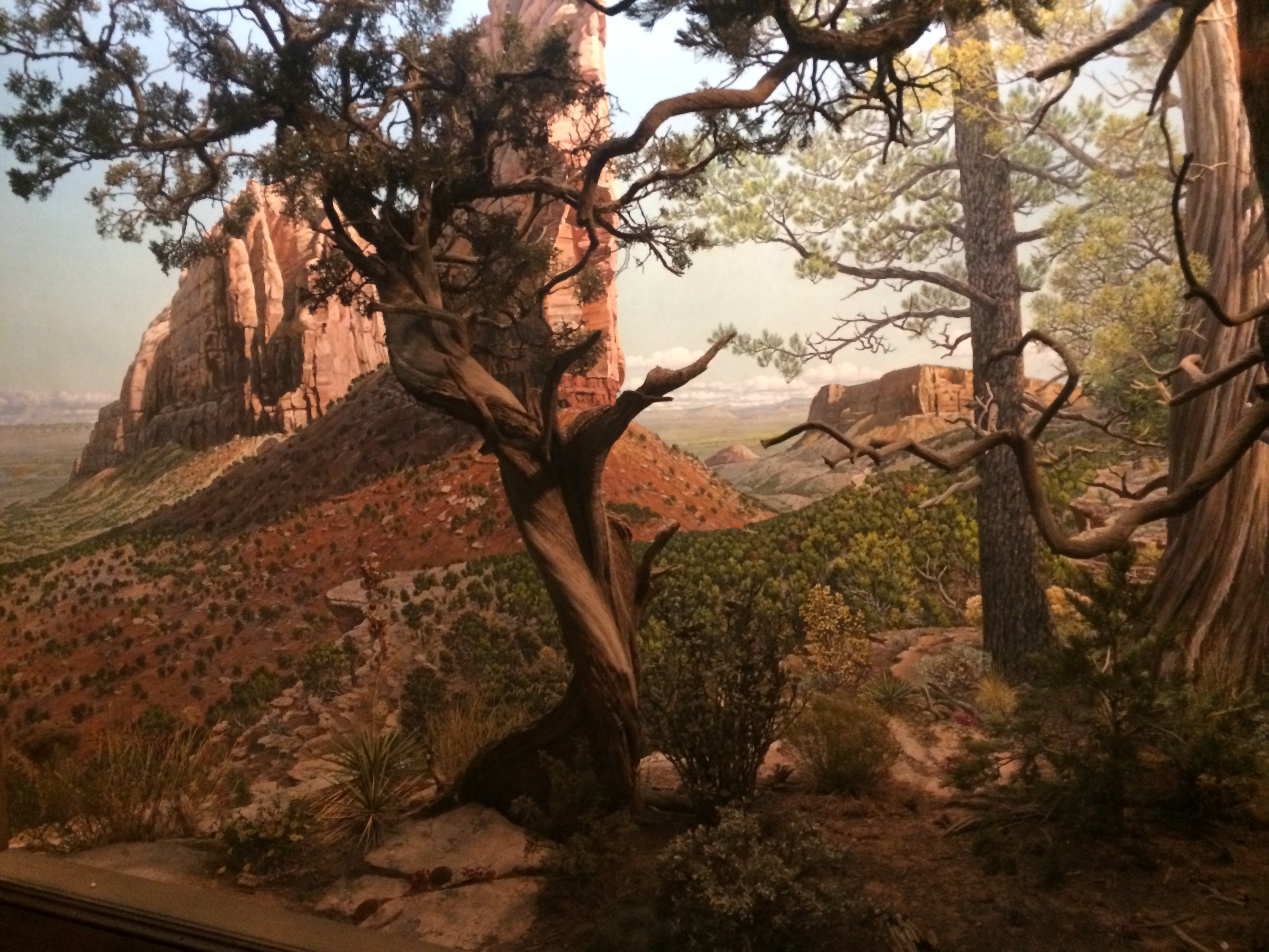 The Juniper Forest diorama in the Hall of North American Forests, American Museum of Natural History